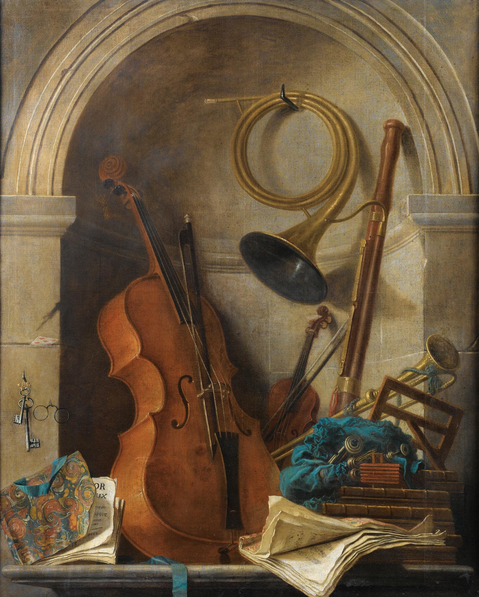 Still life in trompe l’œil with musical instruments and the book of Castor and Pollux, by Nicolas Henri Jeaurat de Bertry. Oil on canvas, 169 x 138.5 cm / 66 1/2 by 54 1/2 in.